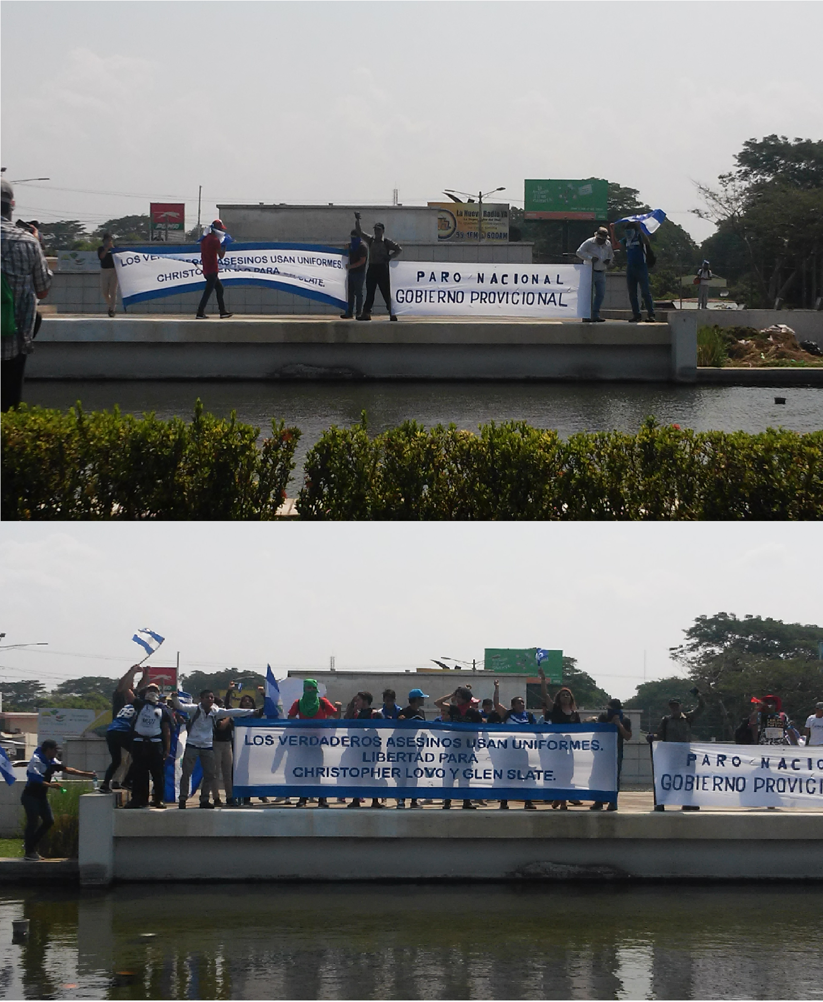 Protesters hold banners calling for the release of political prisoners and the call for a general strike